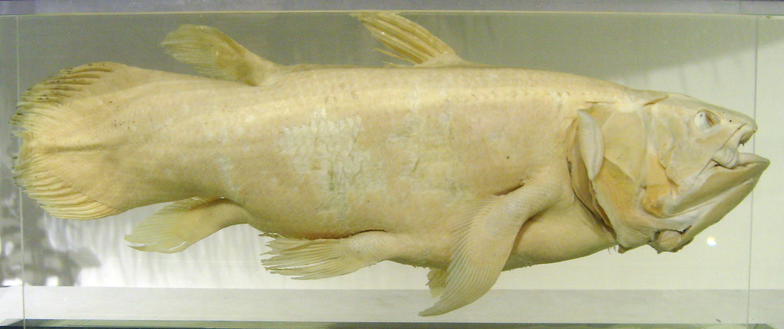 Latimeria chalumnae specimen, Zoologisk Museum, Copenhagen.